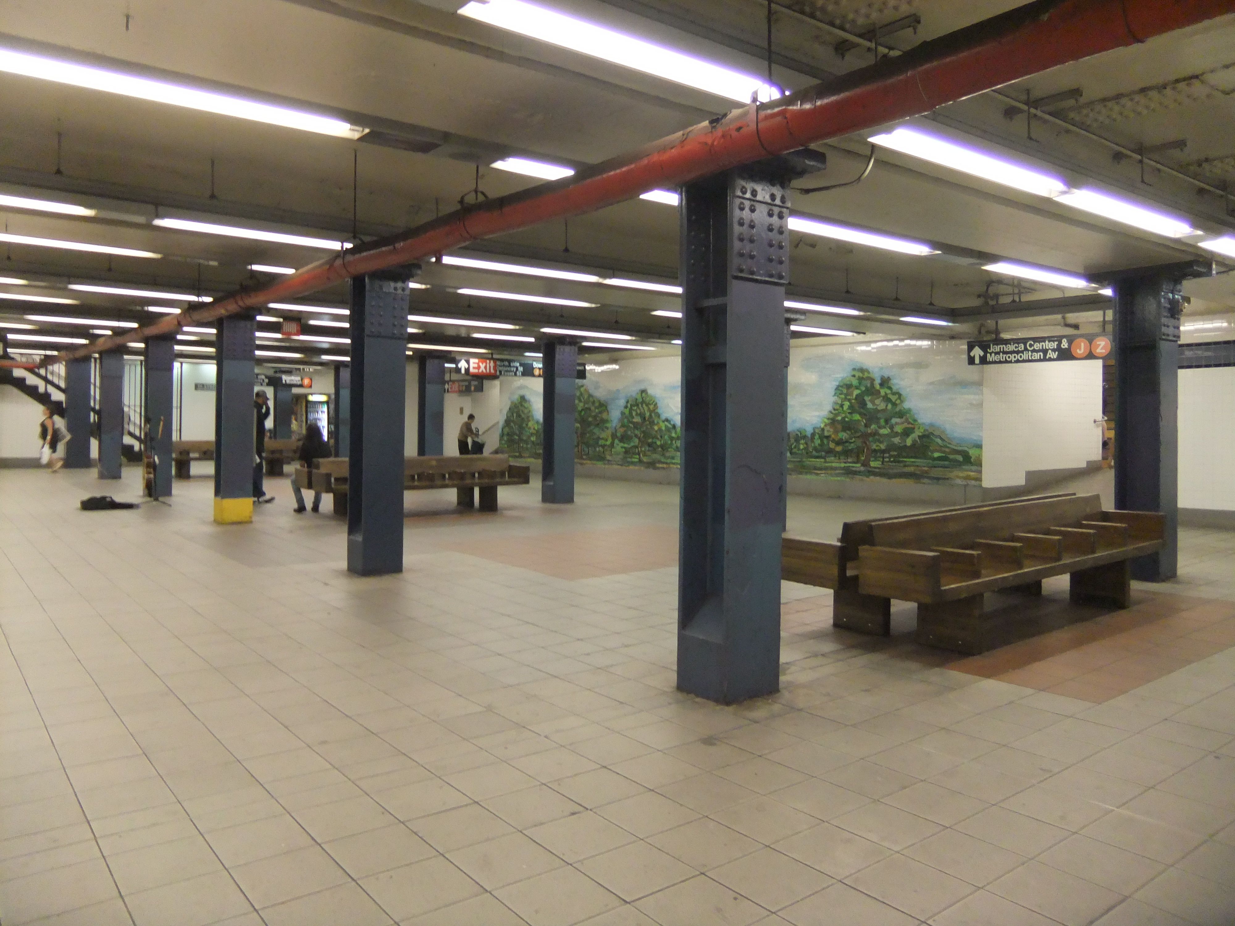 Northbound waiting area at Essex - Delancey Streets.